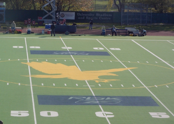 The centre of University Stadium (Waterloo, Ontario), taken at the 2005 Yates Cup game.